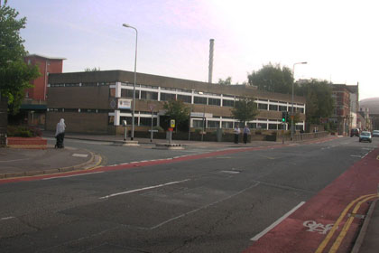 The old Butetown Police Station on James Street, Cardiff Bay, which was demolished in 2006 to make way for a new South Wales Police divisional headquarters.